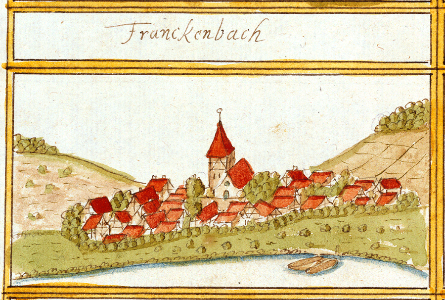 View of Frankenbach from the forest register books created by Andreas Kieser